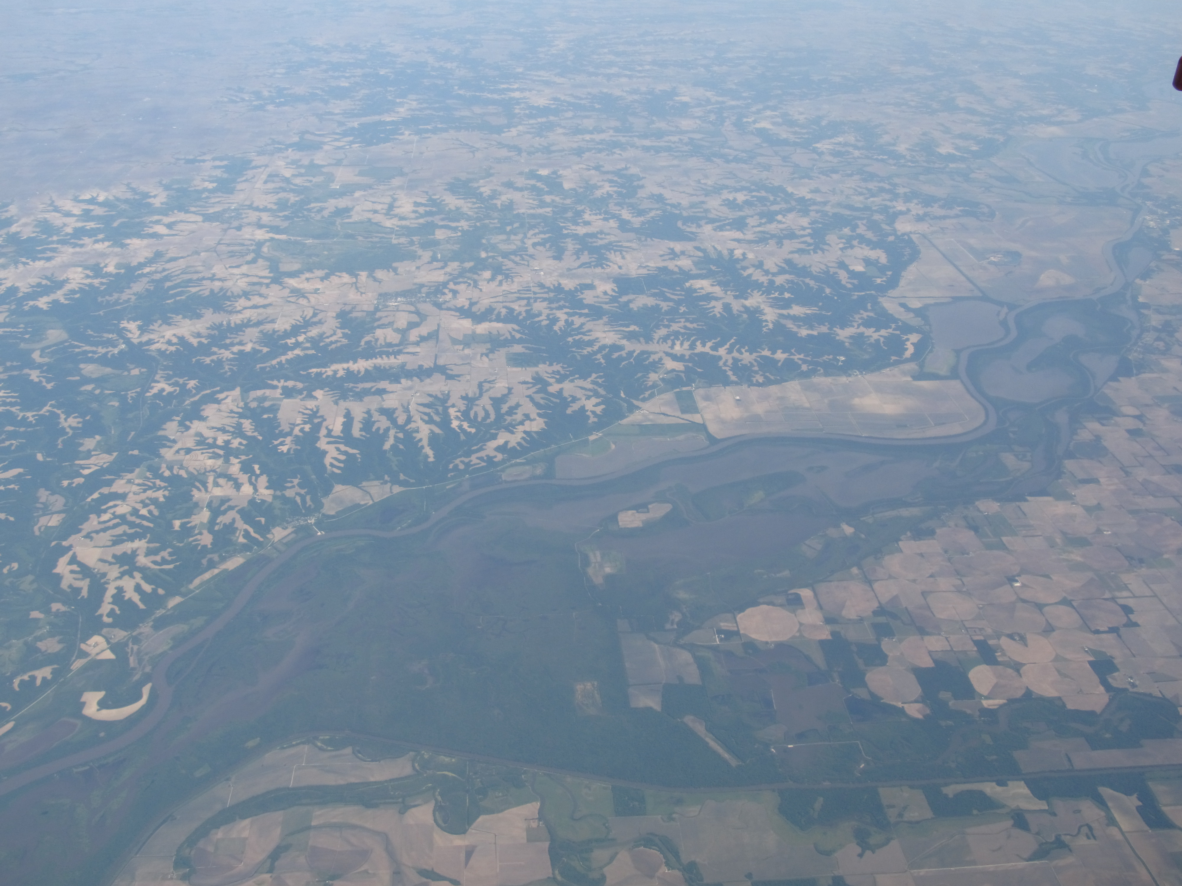 Illinois River through Cass County (at bottom), Mason County (right), and Schuyler County (center left). Near the lower left is the Sanganois State Fish and Wildlife Area. The Sangamon River, straightened into an east-to-west canal, runs along the bottom of the photo.